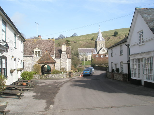 Looking northwards up Church Street